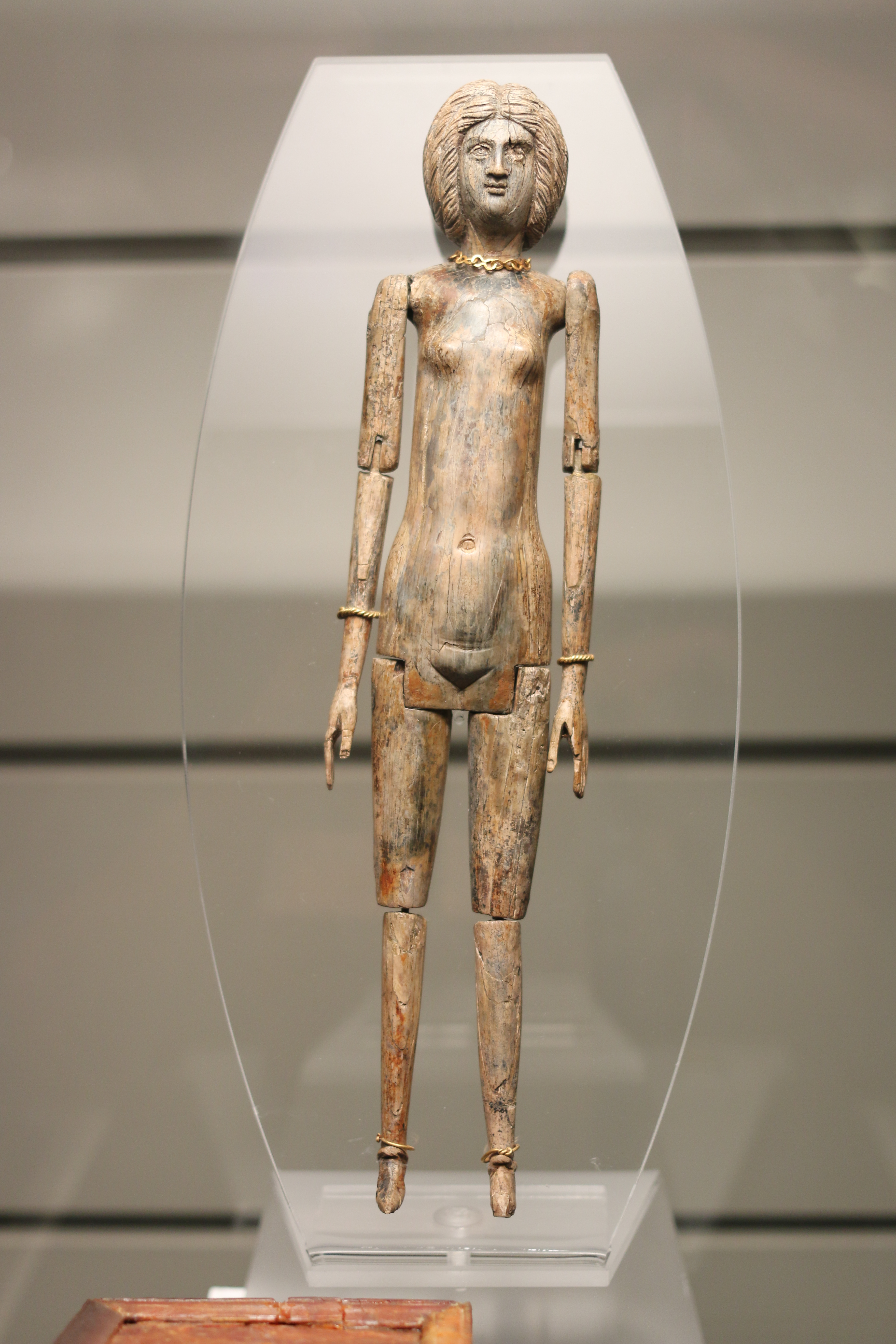 Doll is anatomically correct, wears a gold necklace, bracelets, and anklets, and has a face and hairstyle imitating that of the empress Julia Domna; Roman, end second-beginning third century CE, from the Via Valeria in Tivoli